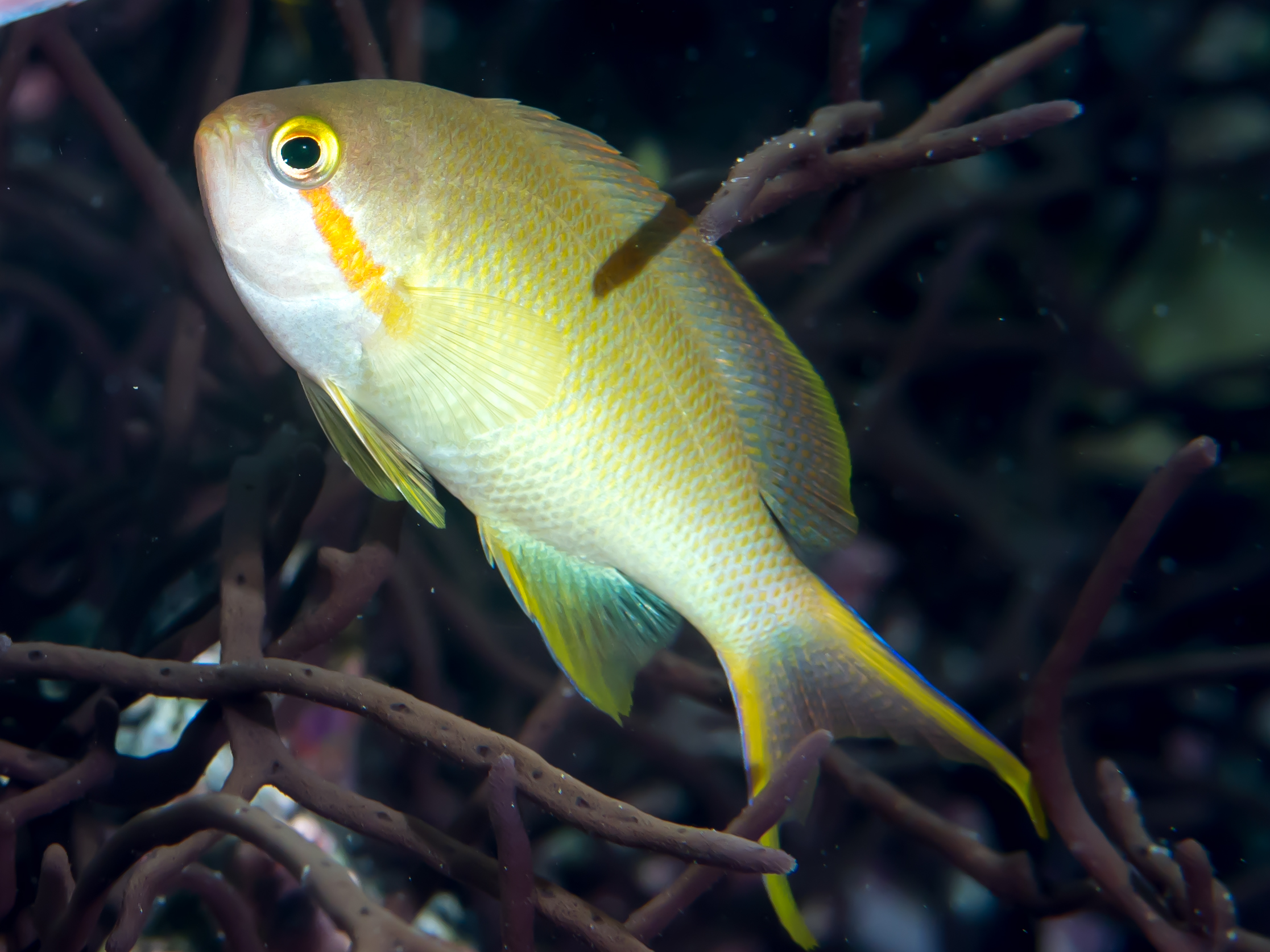 Romblon, Philippines - Red-cheeked anthias female (Pseudanthias huchtii)